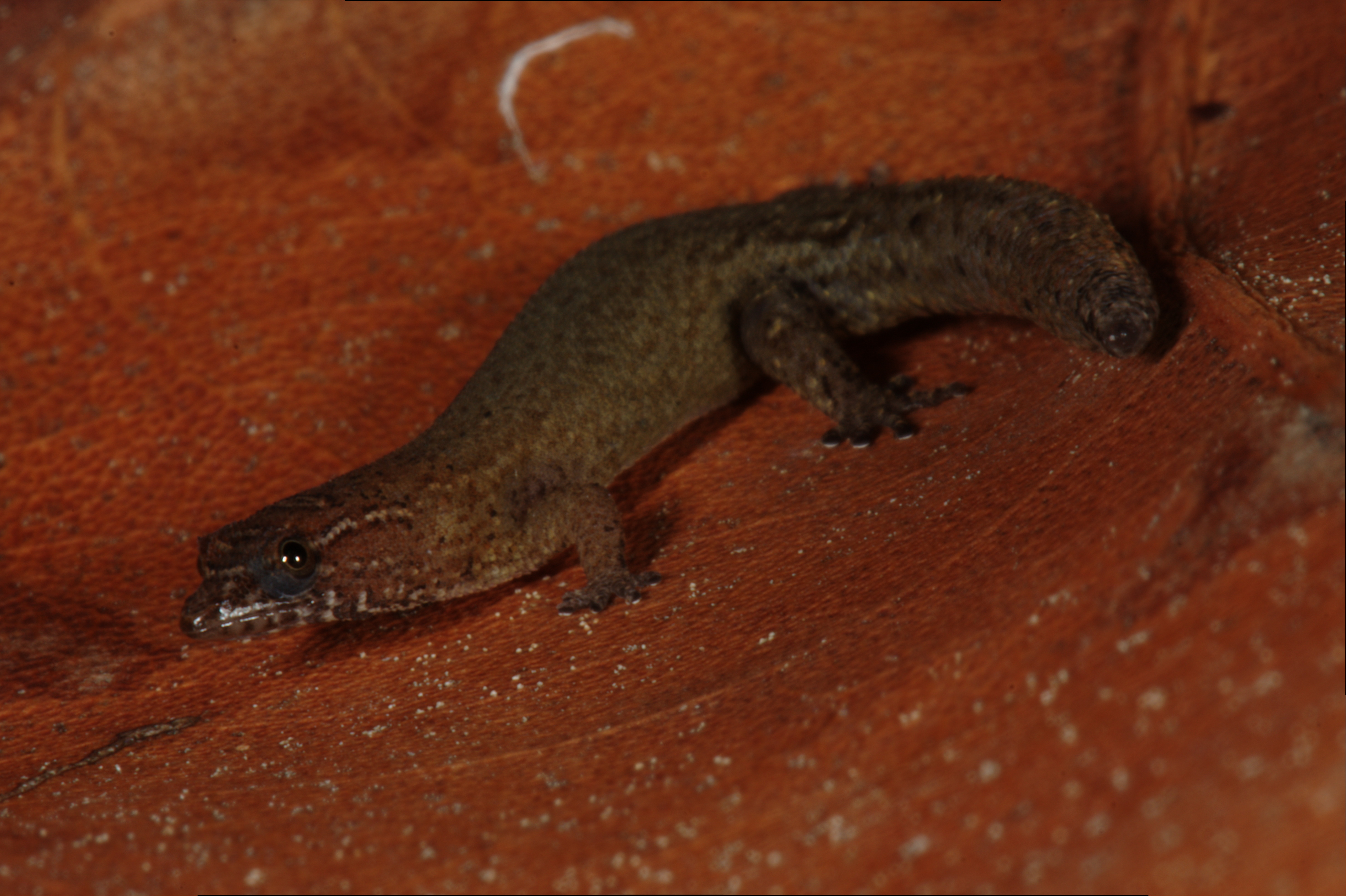 Male Sphaerodactylus parthenopion from Mahoe Bay, Virgin Gorda